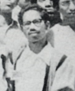 Mortaza Bashir (born August 17, 1932) is a Bangladeshi artist.